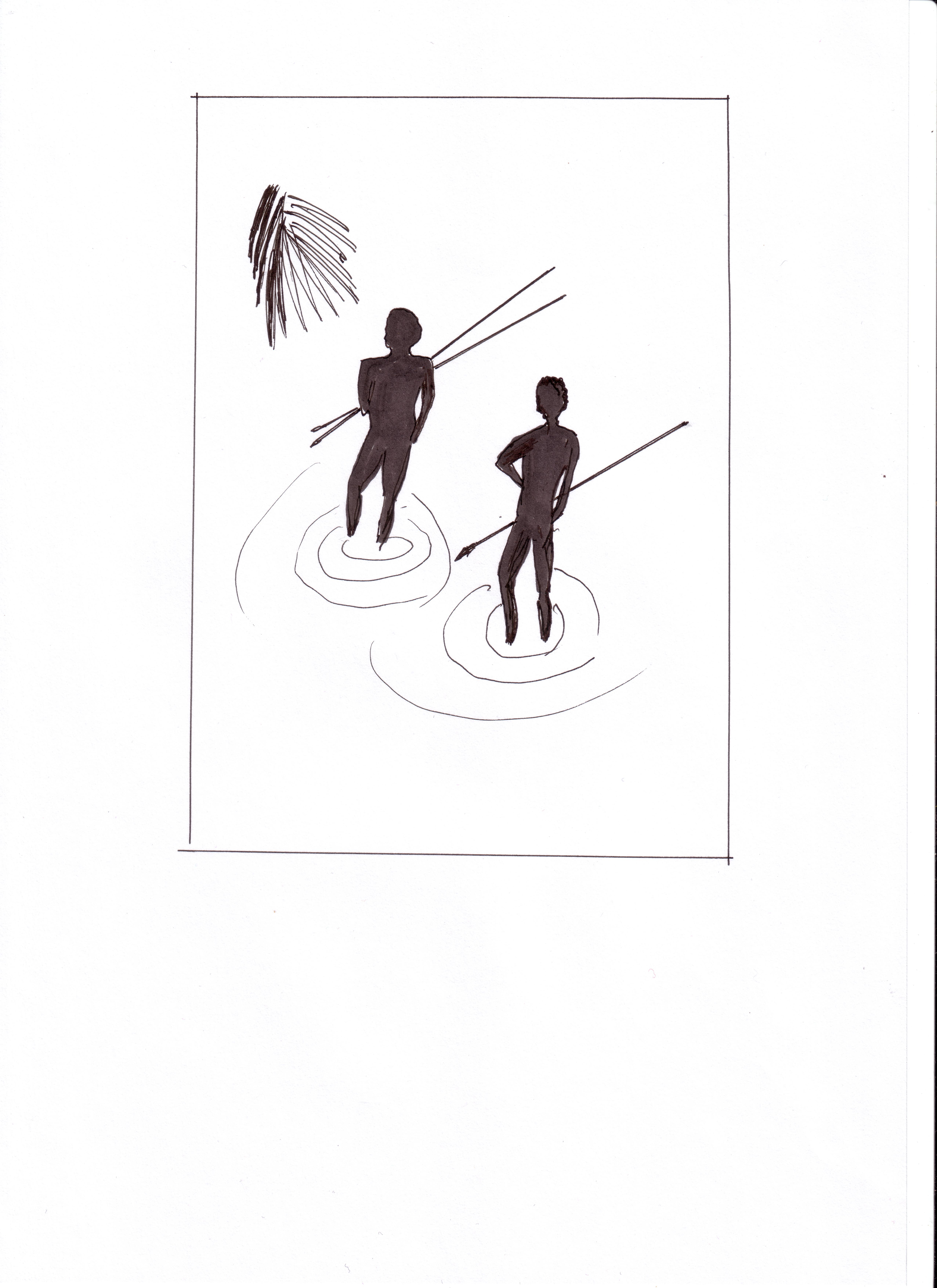 Sketch inspired by a photo taken by australian anthropologist Donald Thomson in the 30' : two Northern Territory Yolngu wading leisurely in a swamp.Really anti-conventional and in advance upon its time shot : from the rear and upside, fully against the glare of the sun reflecting on the water surface...